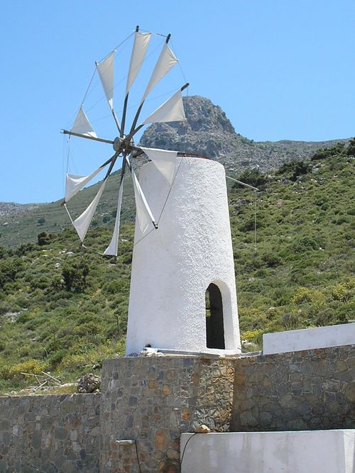 A Venetian-style windmill on the Lasithi Plateau on Crete, Greece